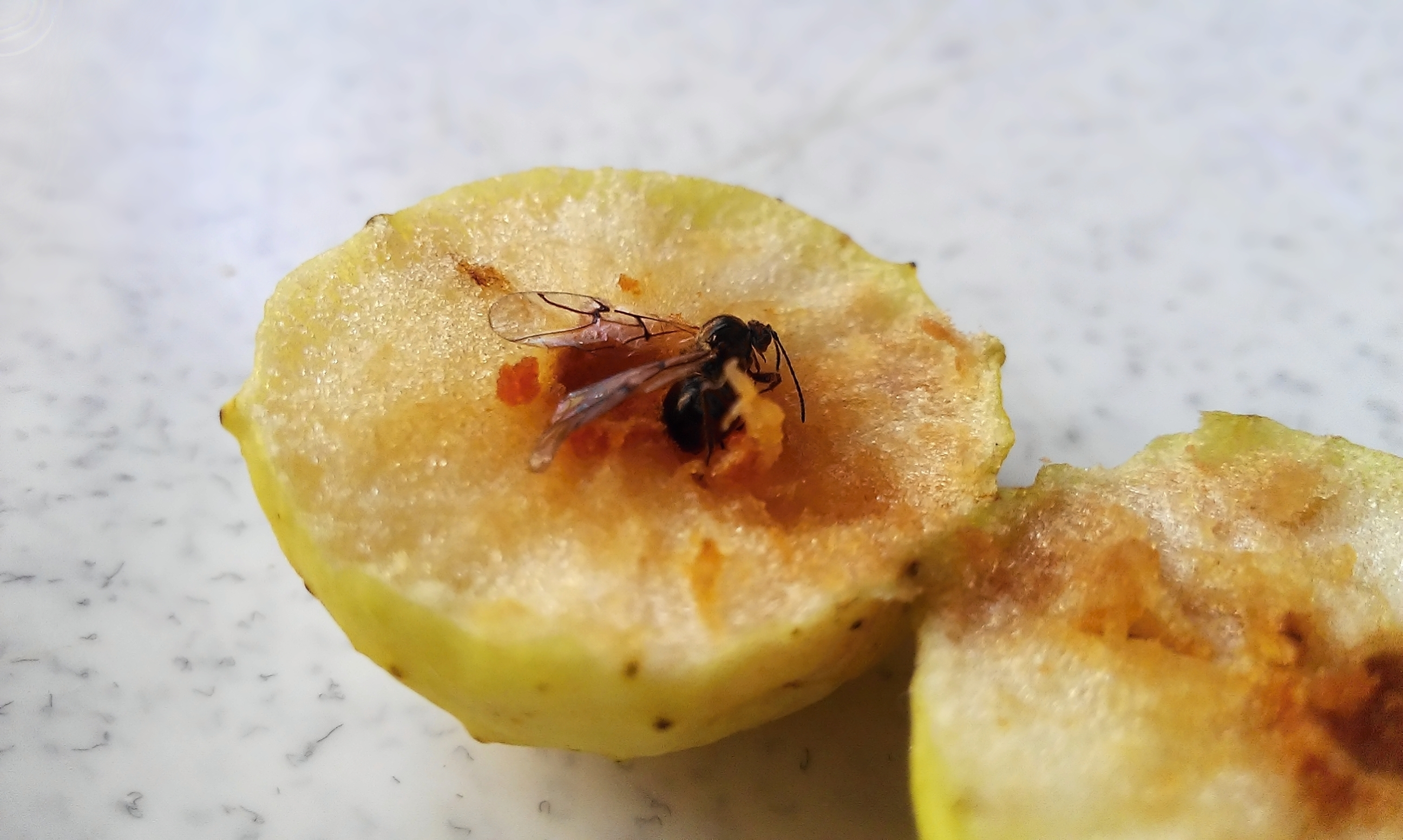 Cut trough oak apple.